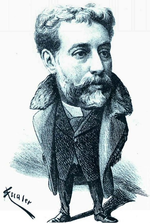 Antoni Ferrer i Codina, by Ramon Escaler (published in "Barcelona cómica" magazine, 27.2.1891)